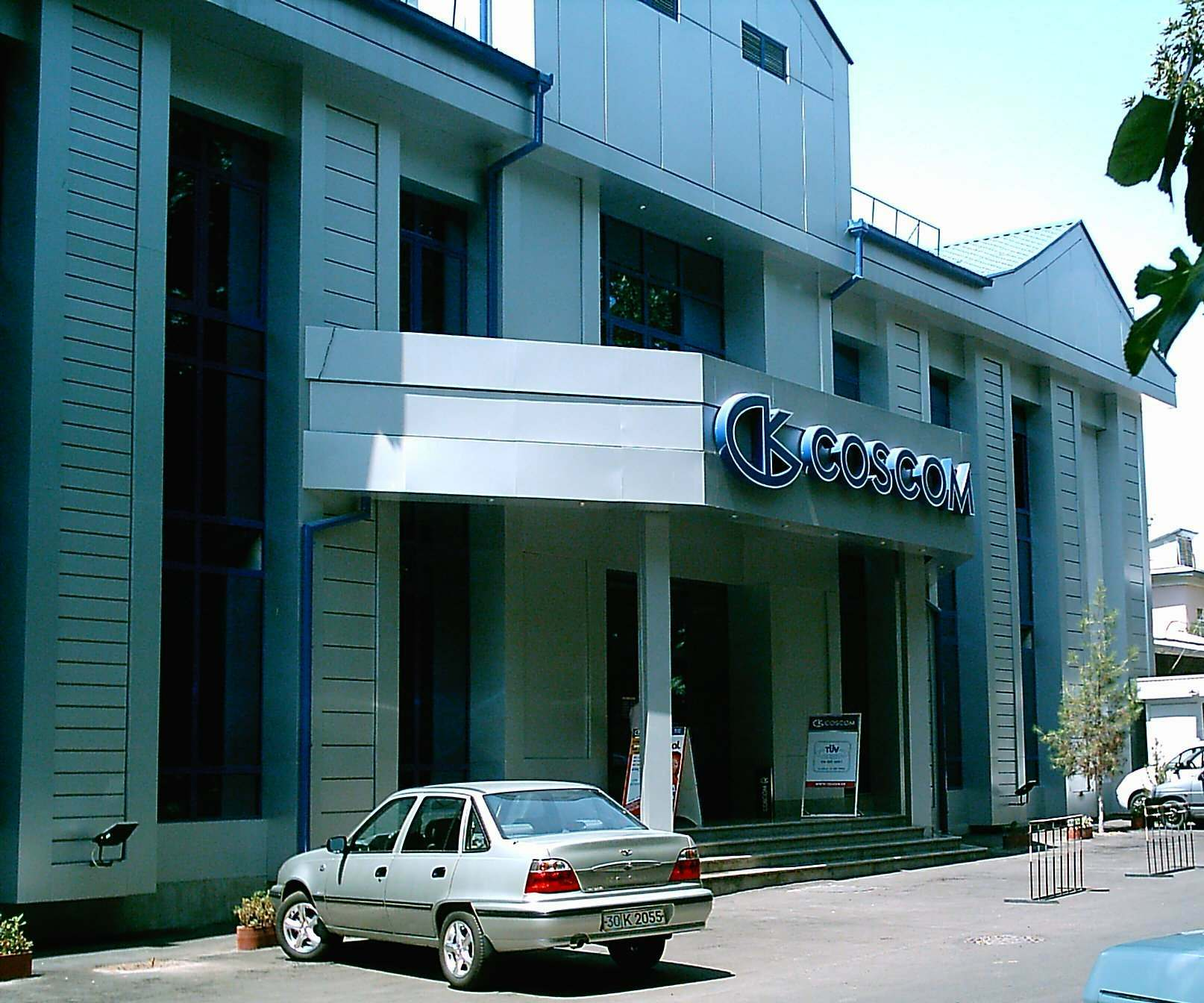 Coscom office in Tashkent, Uzbekistan